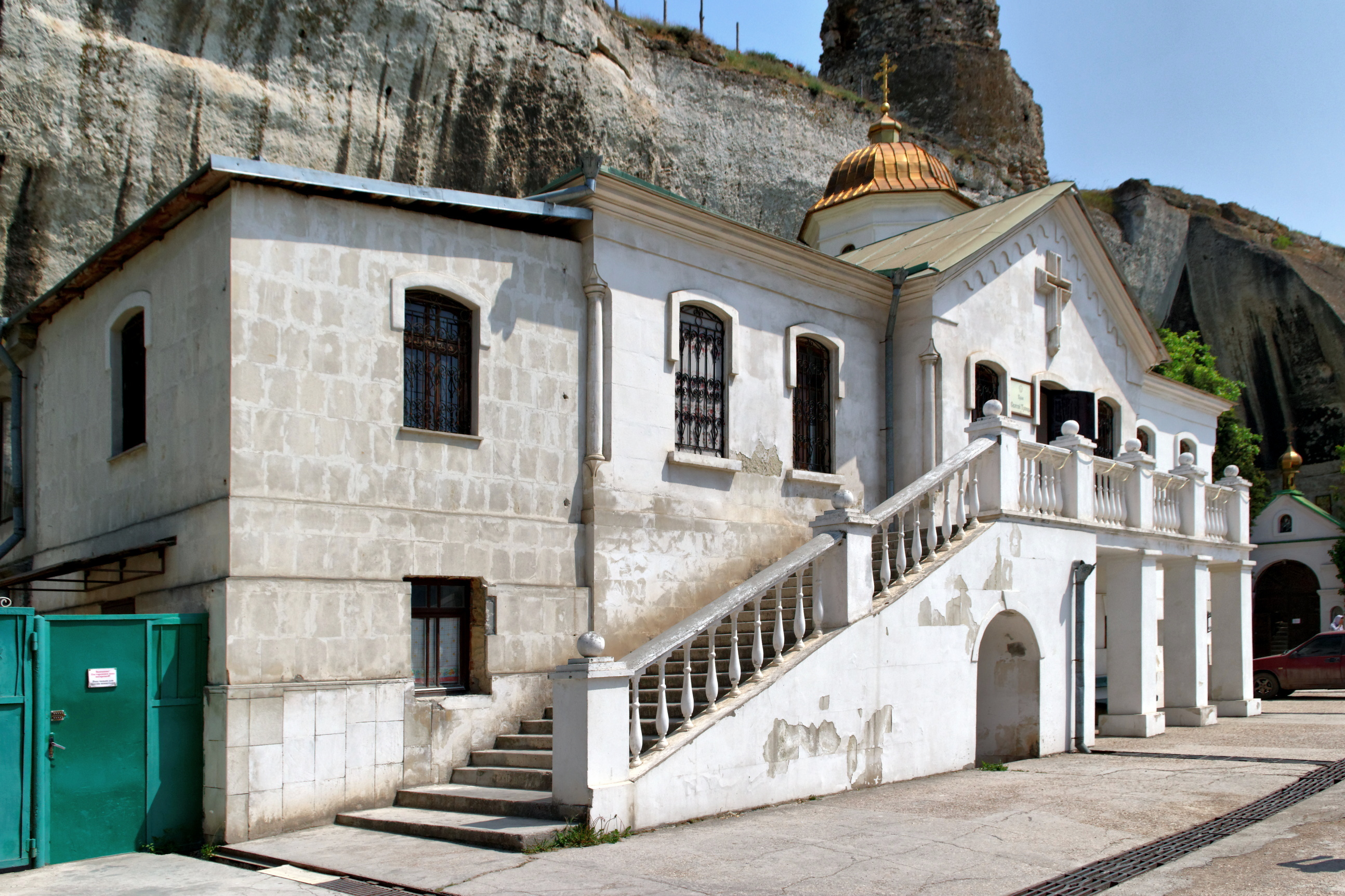 Inkerman. Inkerman Cave Monastery. Trinity church